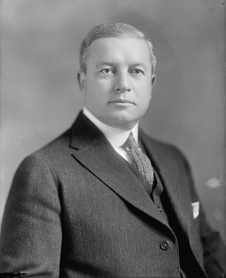 Warren Gard, congressman from Ohio.